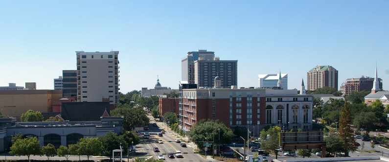 Tallahassee Skyline